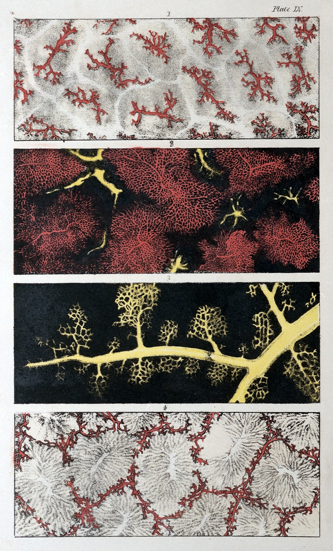 Plate. General Collections Keywords: Microscopy; Human Body